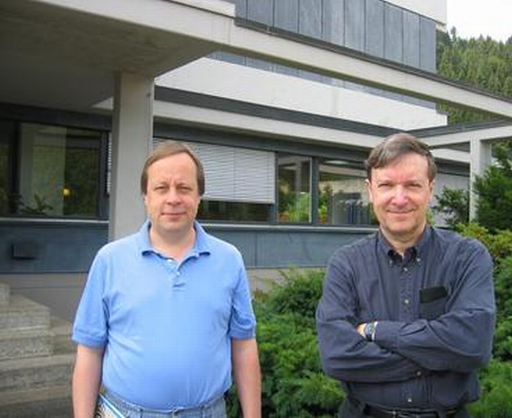 Kari Vilonen (left), Wilfried Schmid, Oberwolfach 2006